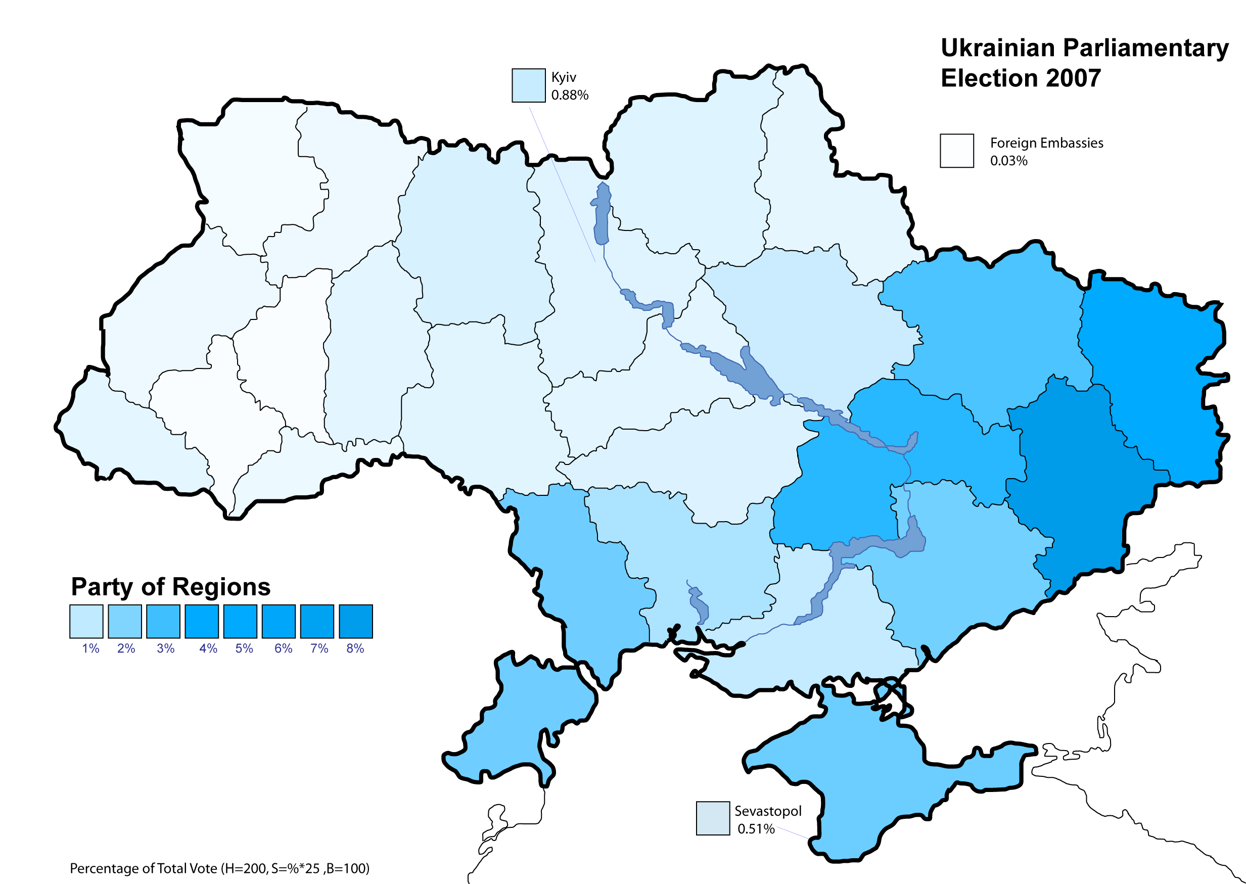 Ukrainian Parliamentary Election 2007 (Party of Regions per region - percentage of total national vote) (H=200, S=%*25, B=100) Improved label alignment and cleaner graphics - Minimal Text version